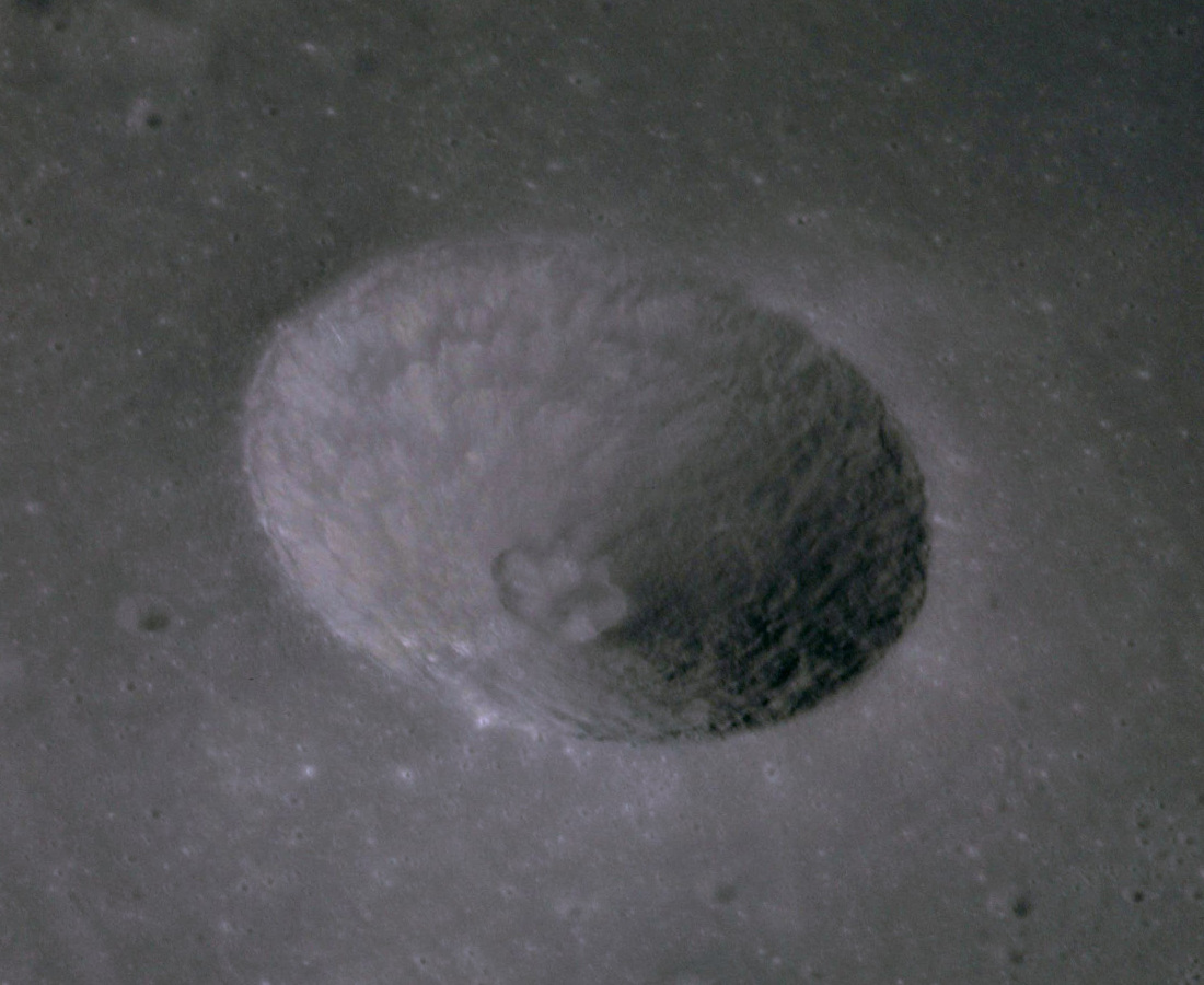 Oblique view of Taruntius F crater (near Taruntius), on the moon.